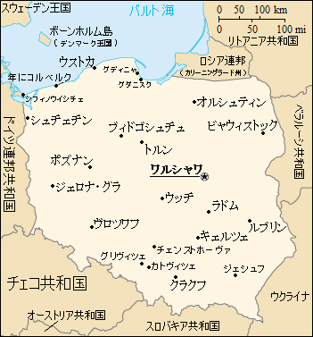 Map of Poland - Japanese version